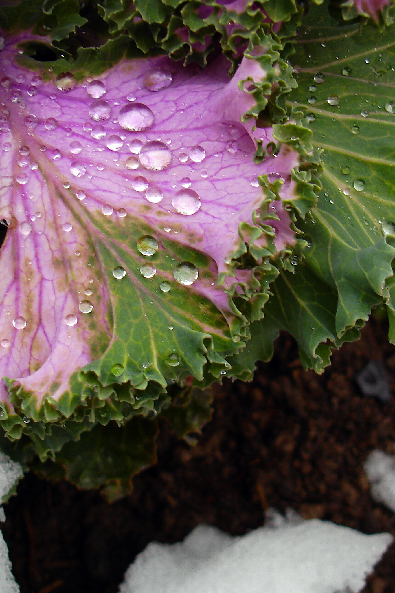 A flower is a special kind of plant part. Flowers are also called the bloom or blossom of a plant. The flower grows on a stalk – a thin node – which supports it. Flowers have petals. Inside the part of the flower that has petals are the parts which produce pollen and seeds. سنڌي: گل (Flower) ڪجھ ٻوٽن جي هڪ حصي کي چيو ويندو آهي. گل ٻوٽي جي نسل جي واڌ جو ڪم ڪندو آهي. گل عام طور تي نر ۽ مادي حصن تي مشتمل هوندو آهي.